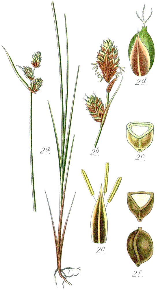 Details of Carex buxbaumii Wahlenb. from a figure in Deutschlands Flora in Abbildungen